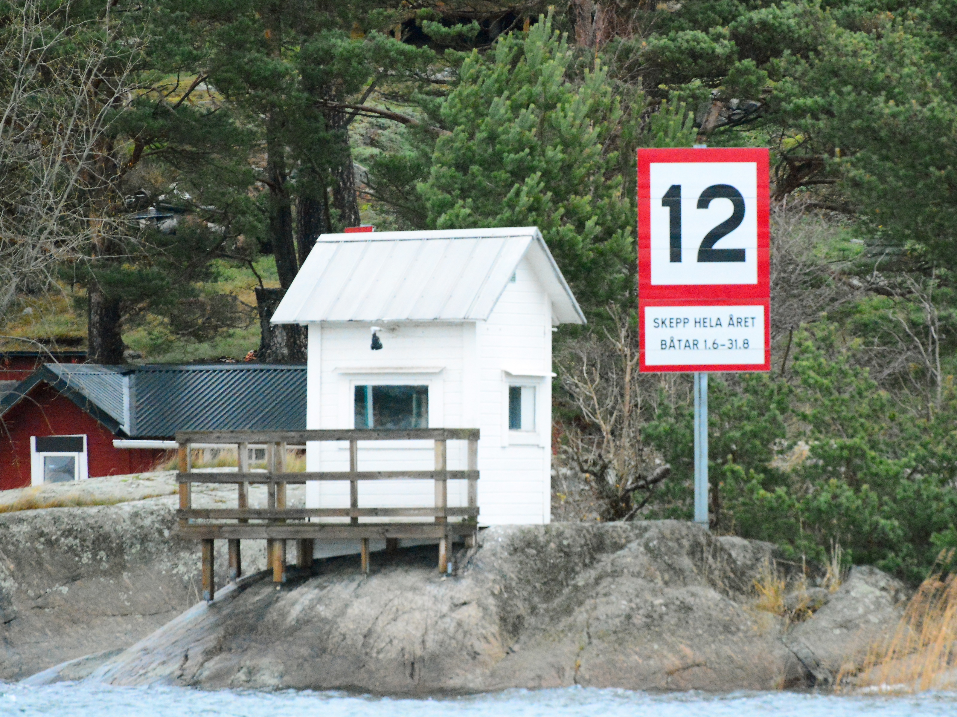 Bedarö lighthouse outside Nynäshamn, Sweden